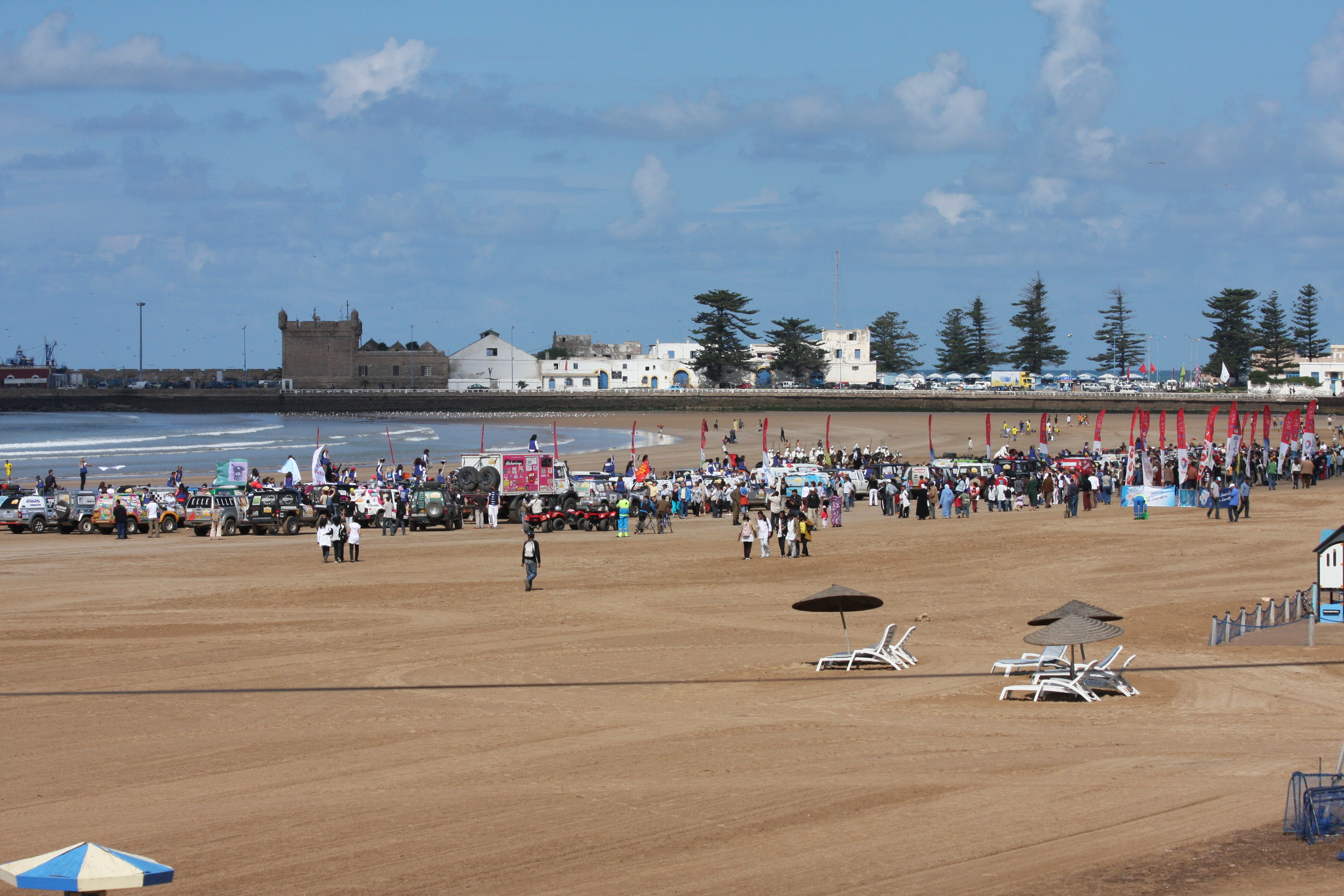 At the finish line at Essaouira. Rallye des Gazelles 2009